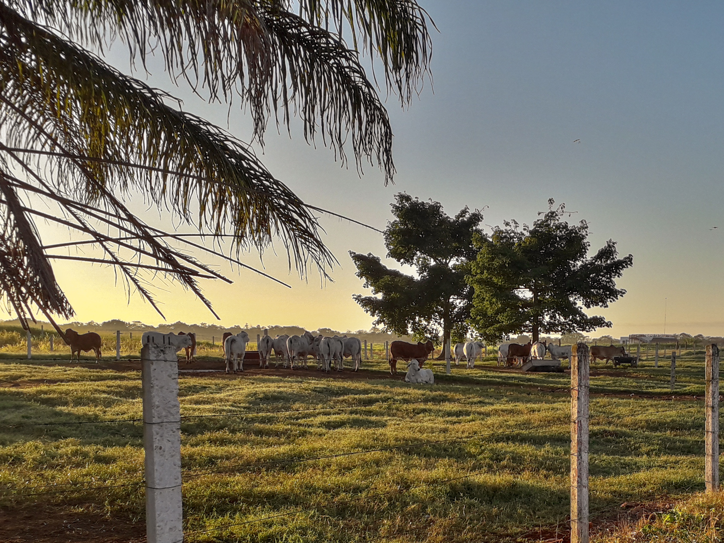 Cows in Tizimin.